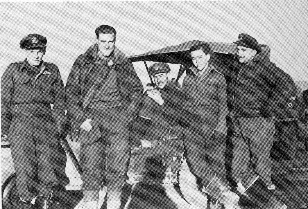 SAAF 8 wing squadron leaders, Michael “Chris” Christopherson RAF 185 Sqdn Leader, Charles Laubscher No. 11 Sqdn Leader, Rosy du Toit, 8 Wing O.C. (seated in Jeep), Cecil Golding No. 3 Sqdn Leader, Geoff Garton RAF 87 Sqdn Leader